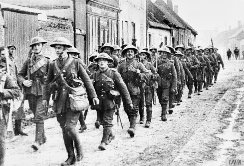 The Battle of the Somme, July-november 1916 A platoon of 'D' Company of the 7th Battalion, Bedfordshire Regiment passing through a French village on its way to the line, shortly before the start of the offensive. The officer at the head of his platoon is Lieutenant Douglas Keep, who was killed in 1917.